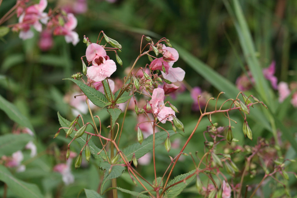 Himalayan BalsamImpatiens glandulifera, Außenalster, Hamburg, Germany